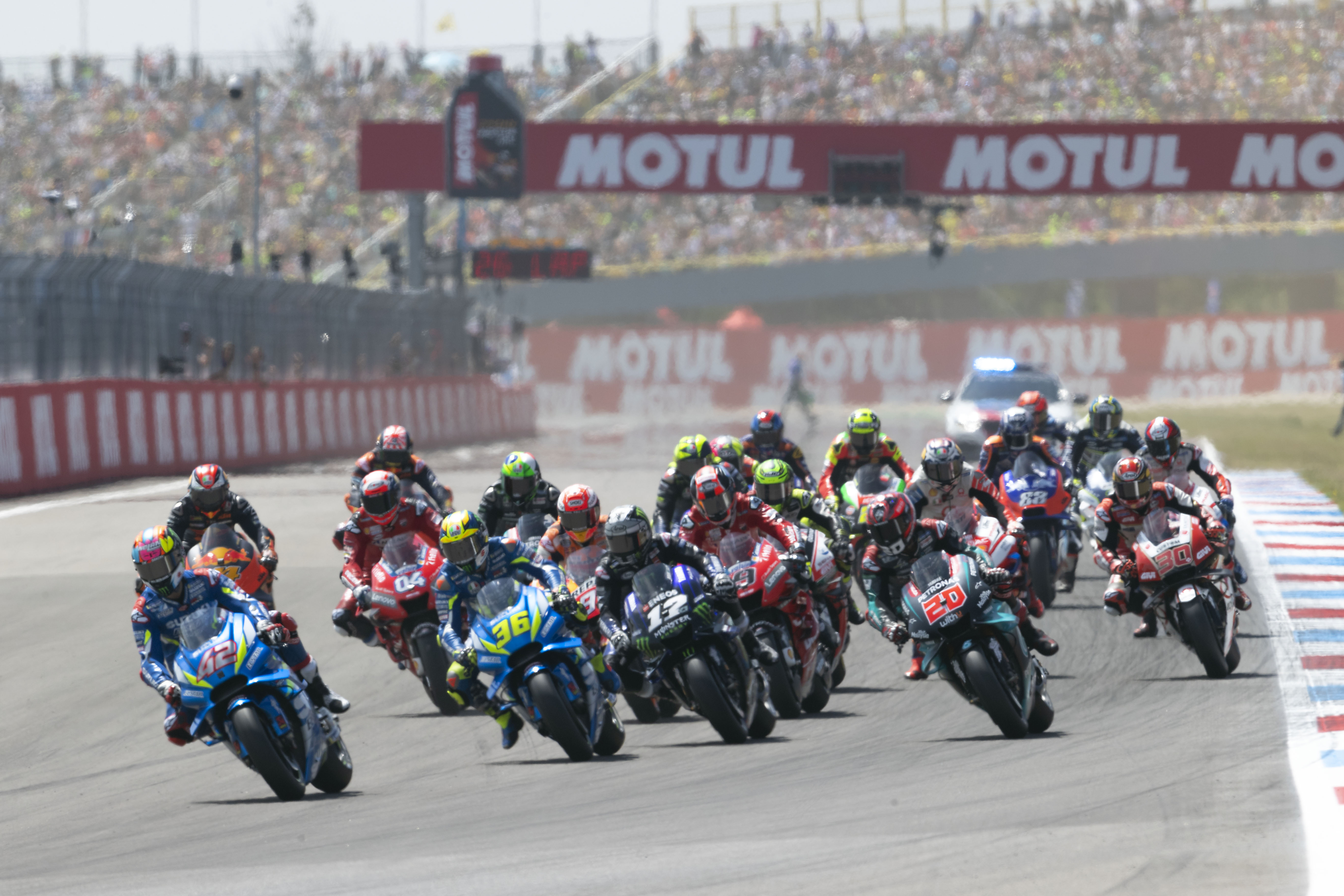 Álex Rins, riding his Ecstar Suzuki, leading the pack on the opening lap of the 2019 Dutch TT.